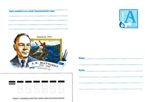 The envelope of the Belarusian mail which has been let out in 2002 to the 100 anniversary of the Belarusian artist Akim Shevchenko